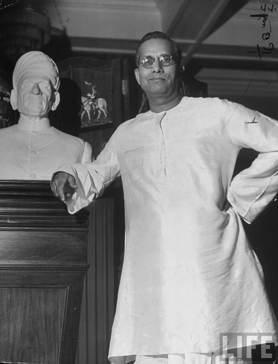 Indian Industrialist G. D. Birla (L) backer & benefactor to Hindu ldr. Mohandas Gandhi, posing next to bust of his father, the founder of the Birla firm, at his palacial home 1946